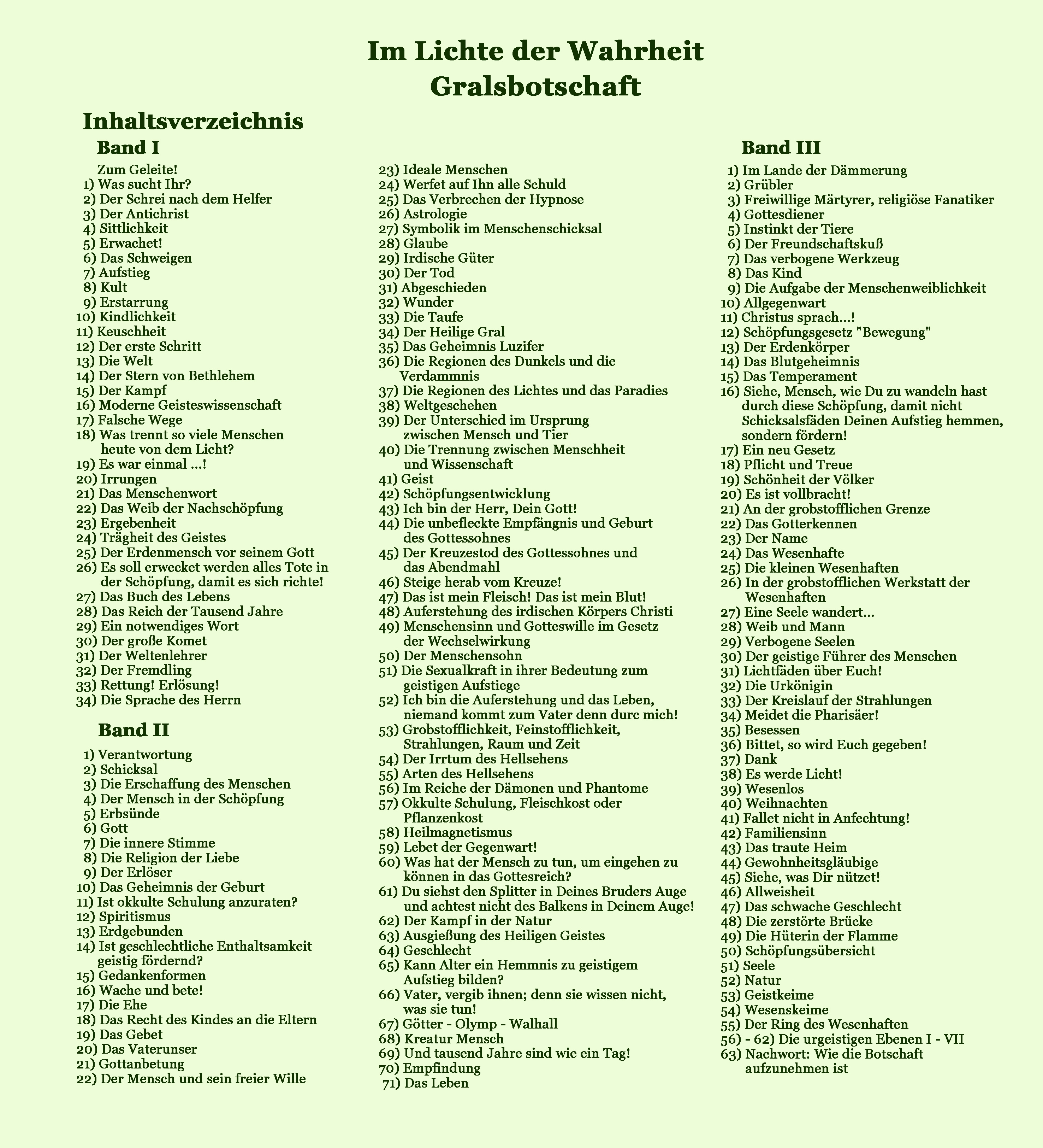 In the Light of Truth, Grail Message, Table of contents